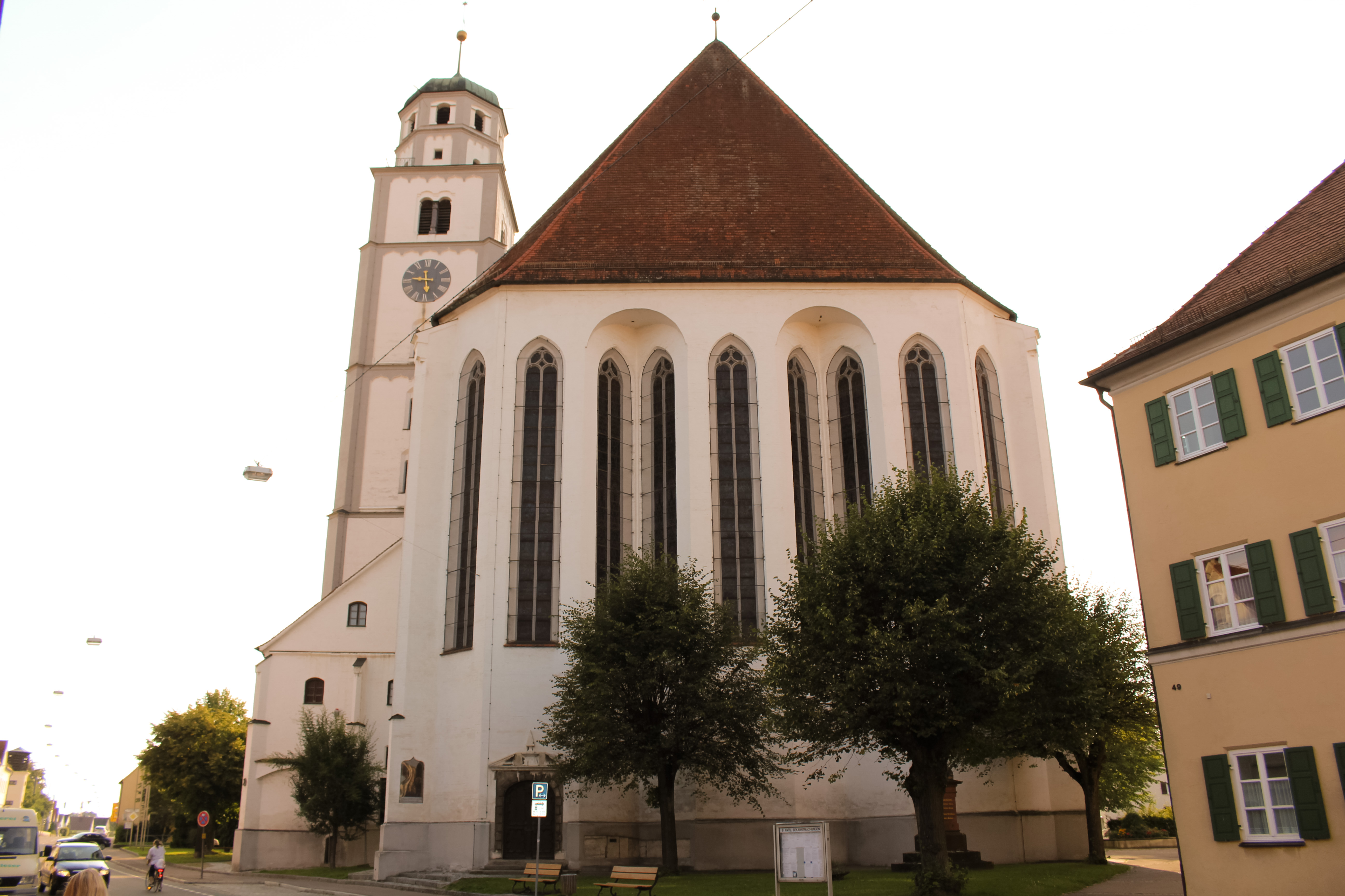 Die Chorpartie der Stadtpfarrkirche St. Martin